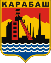 Karabash (Chelyabinsk oblast), coat of arms (1997)